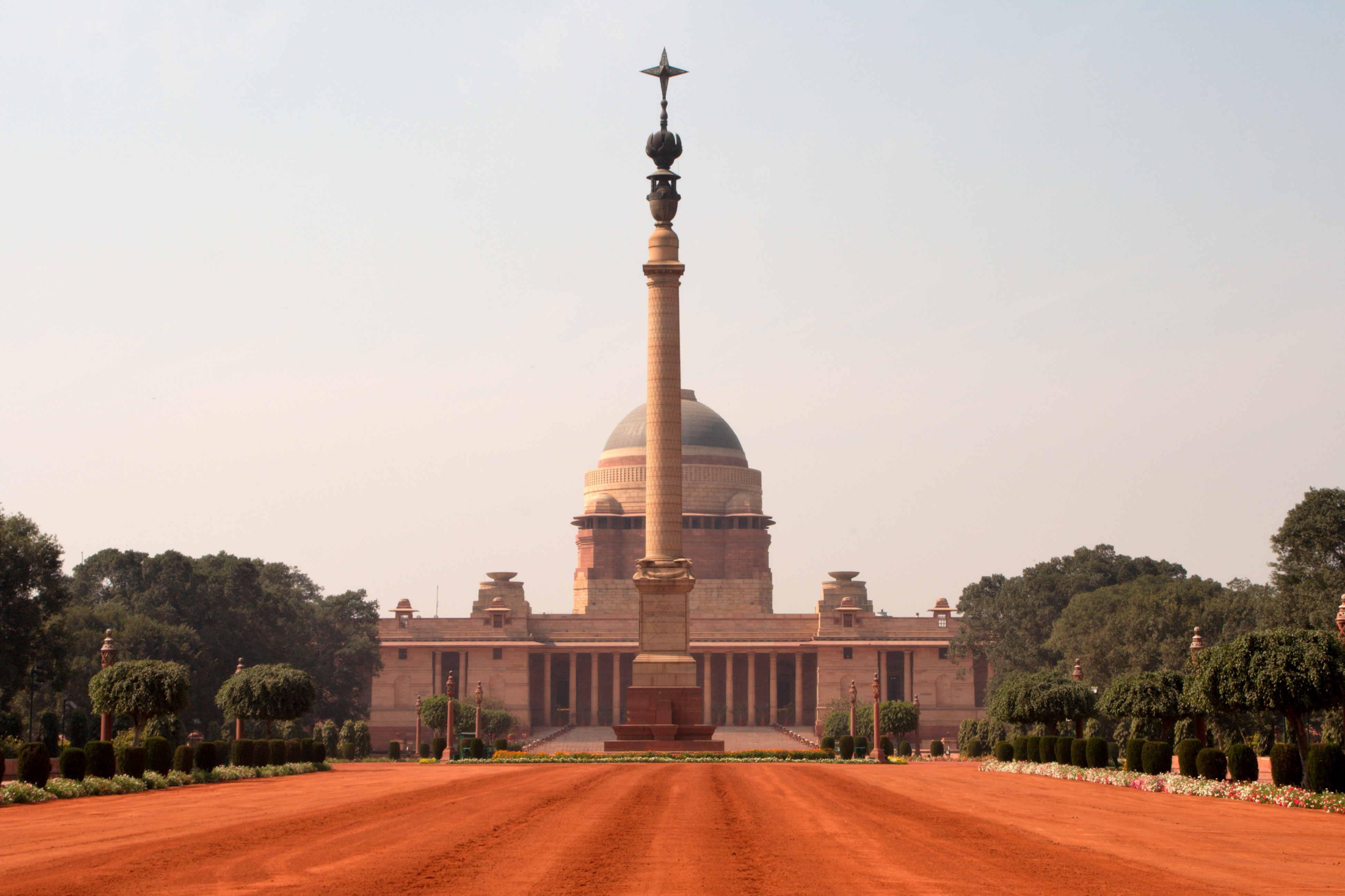 Raisina Hill is a prime area in Edwin Lutyens' New Delhi, housing India's most important government buildings. The Rashtrapati Bhavan, India's Presidential palace, flanked by the Secretariat building housing the Indian Prime Minister's Office and several other important ministries. Other important buildings and structures situated near the Raisina Hill includes the Parliament of India, the Rajpath, the Vijay Chowk and the India Gate.